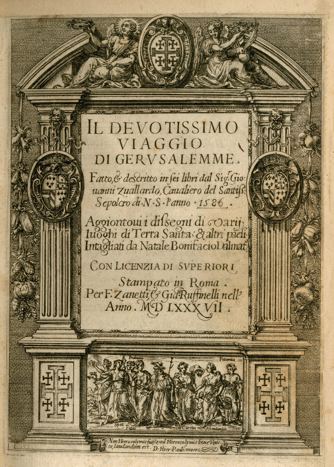 Jean Zuallart. Il devotissimo viaggio di Gerusalemme fatto, & descritto in sei libri dal Sig. Giovanni Zuallardo, Cavaliero del Santiss Sepolcro di N.S. l'anno 1586, Rome, F. Zanetti & Gia Ruffinelli, MDLXXXVII (1587)